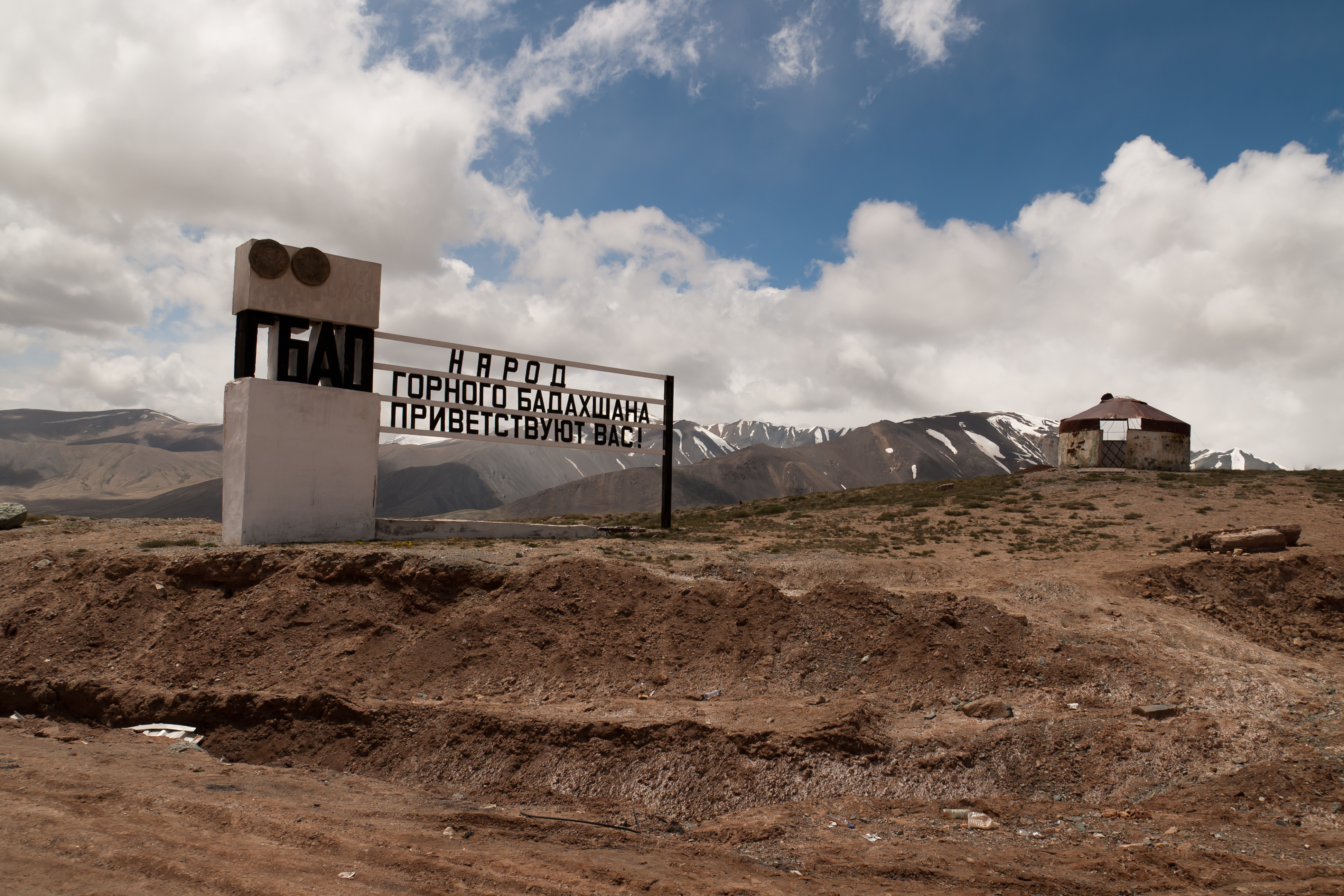 entering Tajikistan and the Gorno-Badakhshan Autonomous Province from Kygrgyzstan